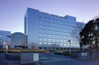 Sengen site of NIMS